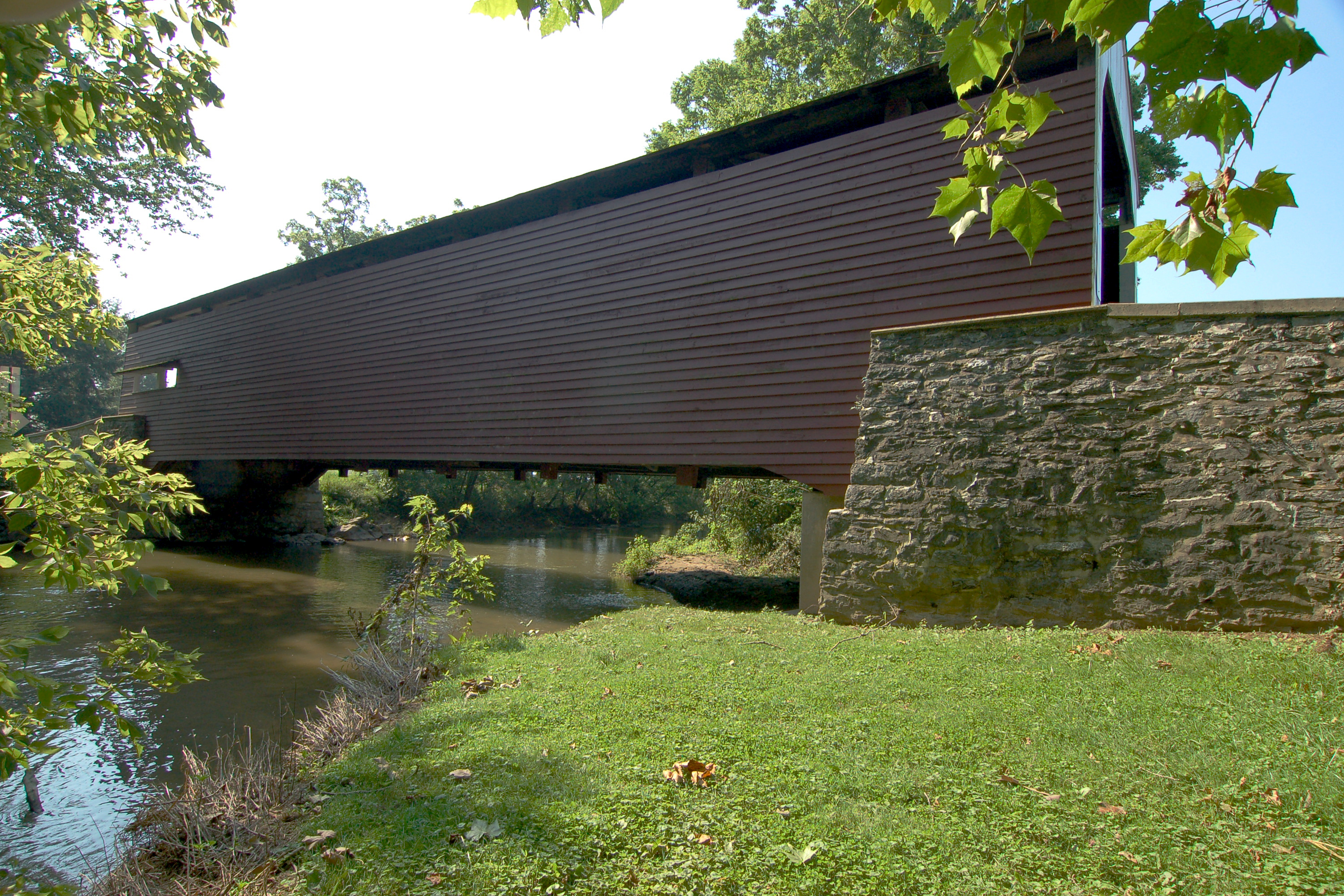 A side view photograph of the Schenck's Mill Covered Bridge located in Lancaster County, Pennsylvania.